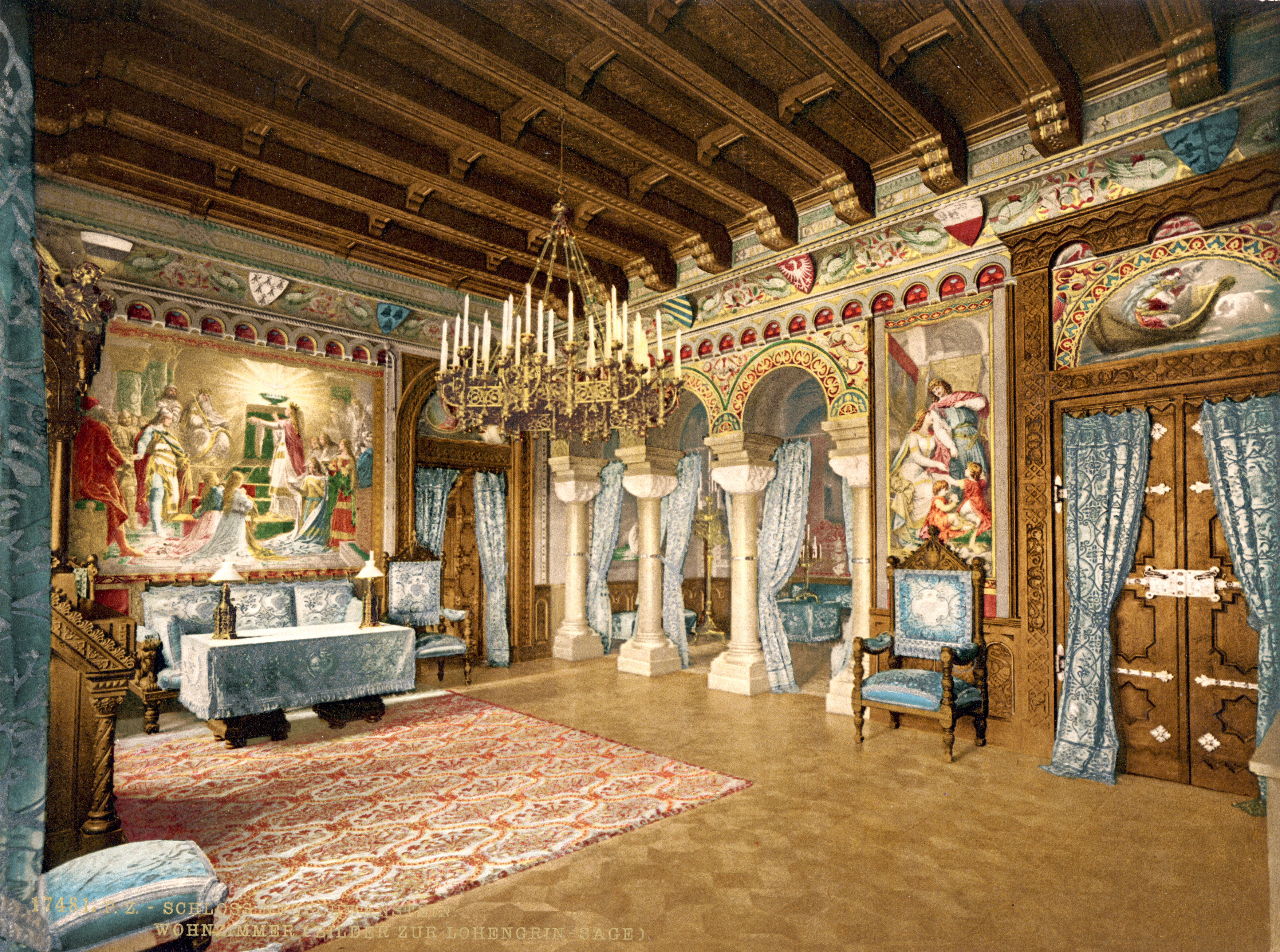 Pictures of the Lohengrin story, drawing room, Neuschwanstein Castle, Upper Bavaria, Germany. Photograph by Joseph Albert 1886, postcard published ca. between 1890 and 1900. Detroit Publishing Co. print no. 17481.